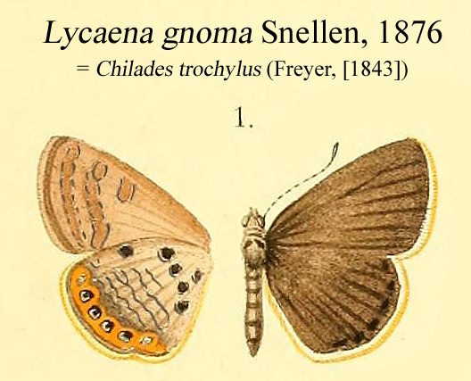 Lycaena gnoma Snellen, 1876 ( = Chilades trochylus) from original description.